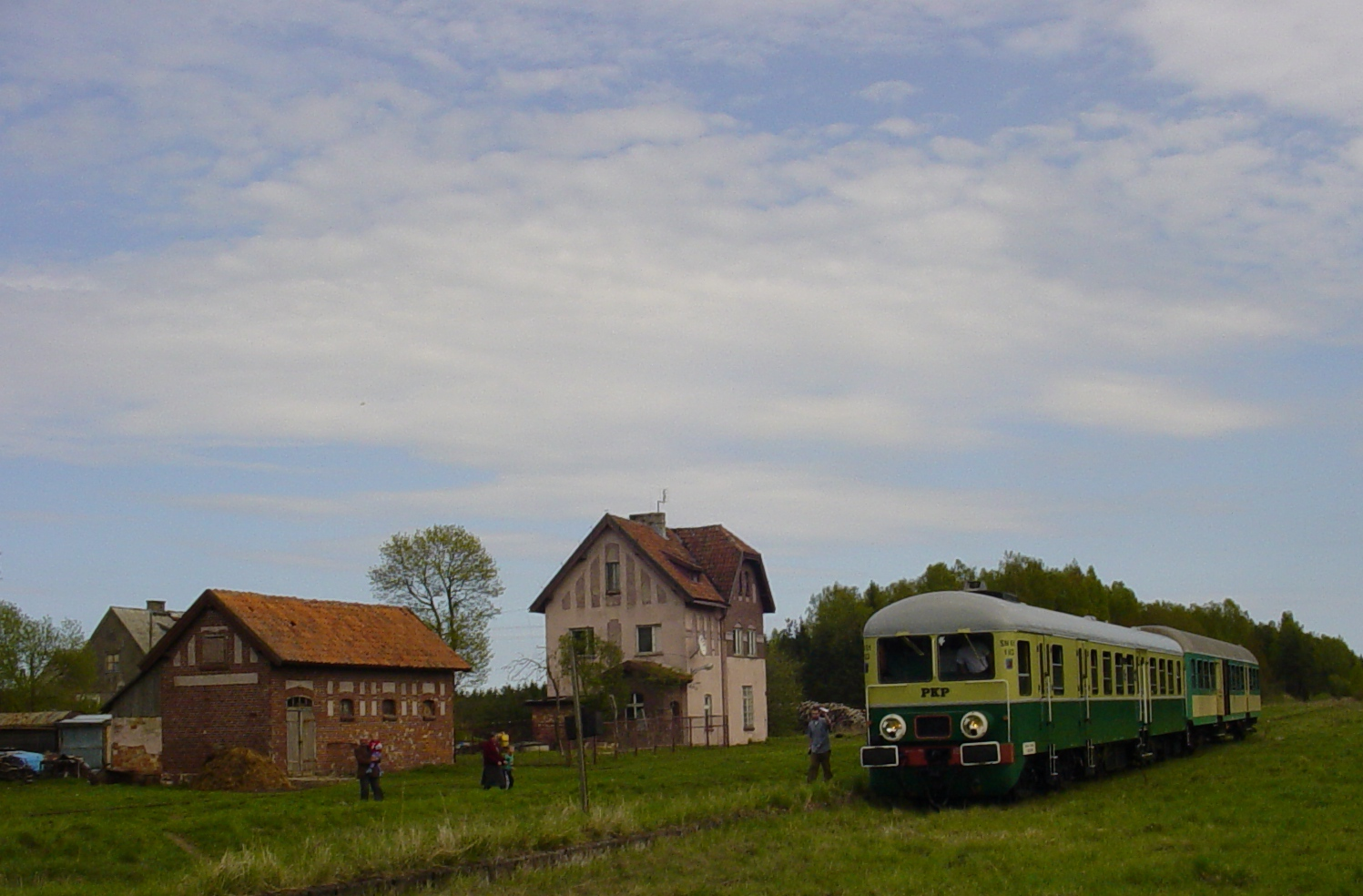 Tourist train (diesel railcar SN61) in Botkuny on route 41